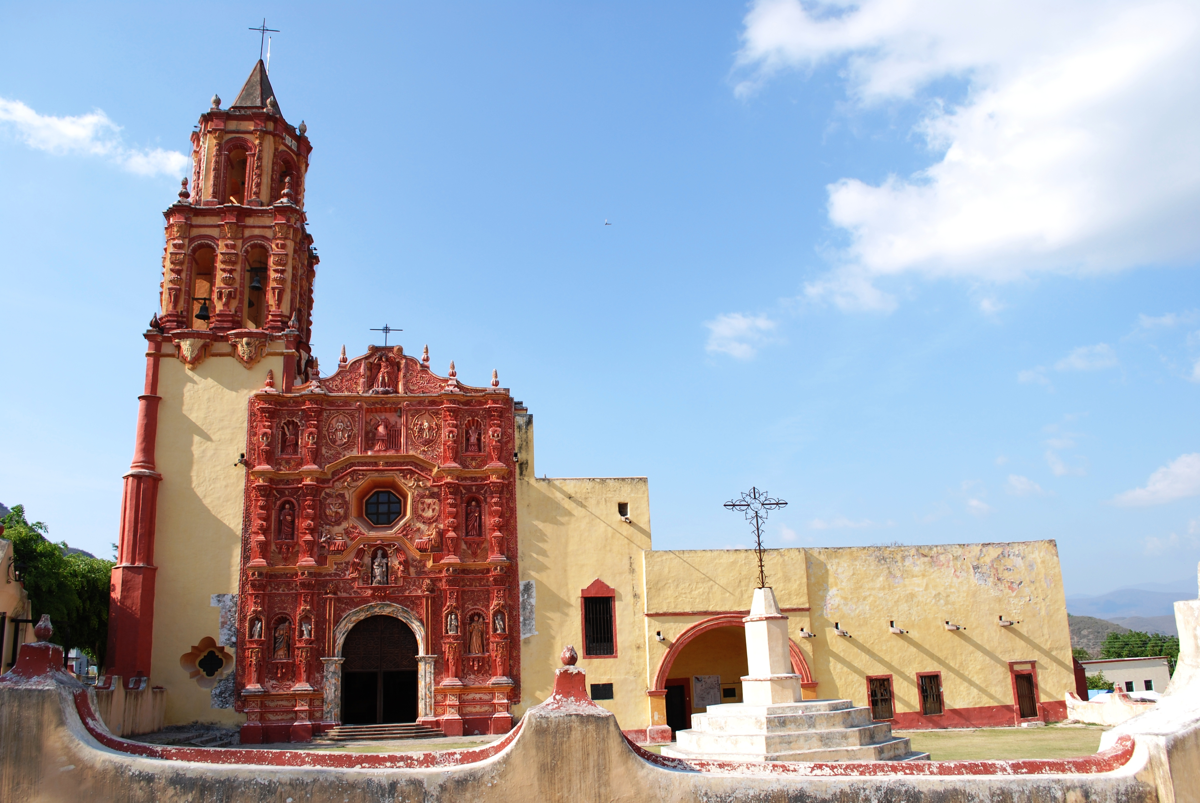 View of the mission at Landa de Matamoros, Querétaro, Mexico